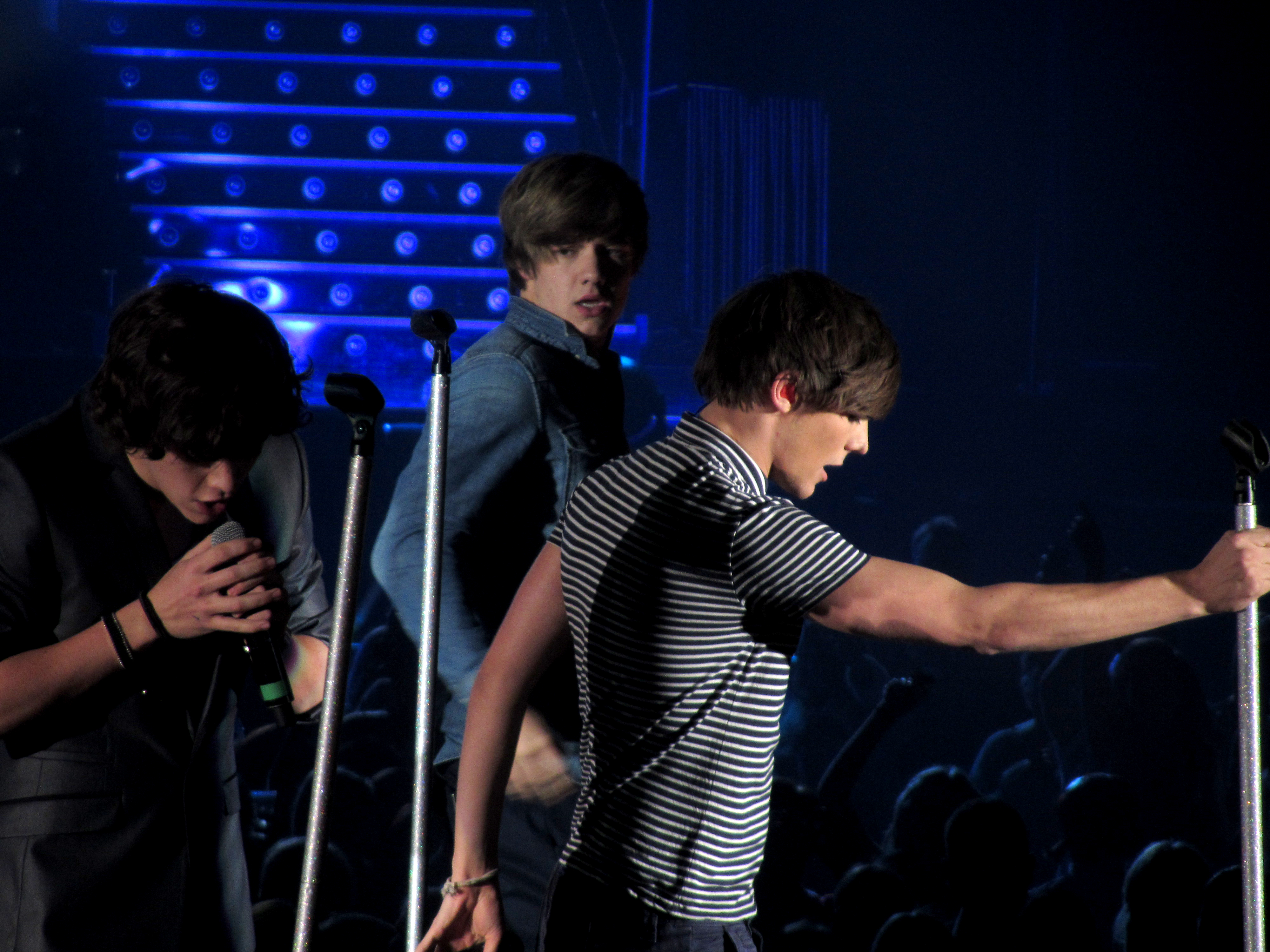 One Direction, The X Factor Live, SECC, Glasgow, 1 April 2011